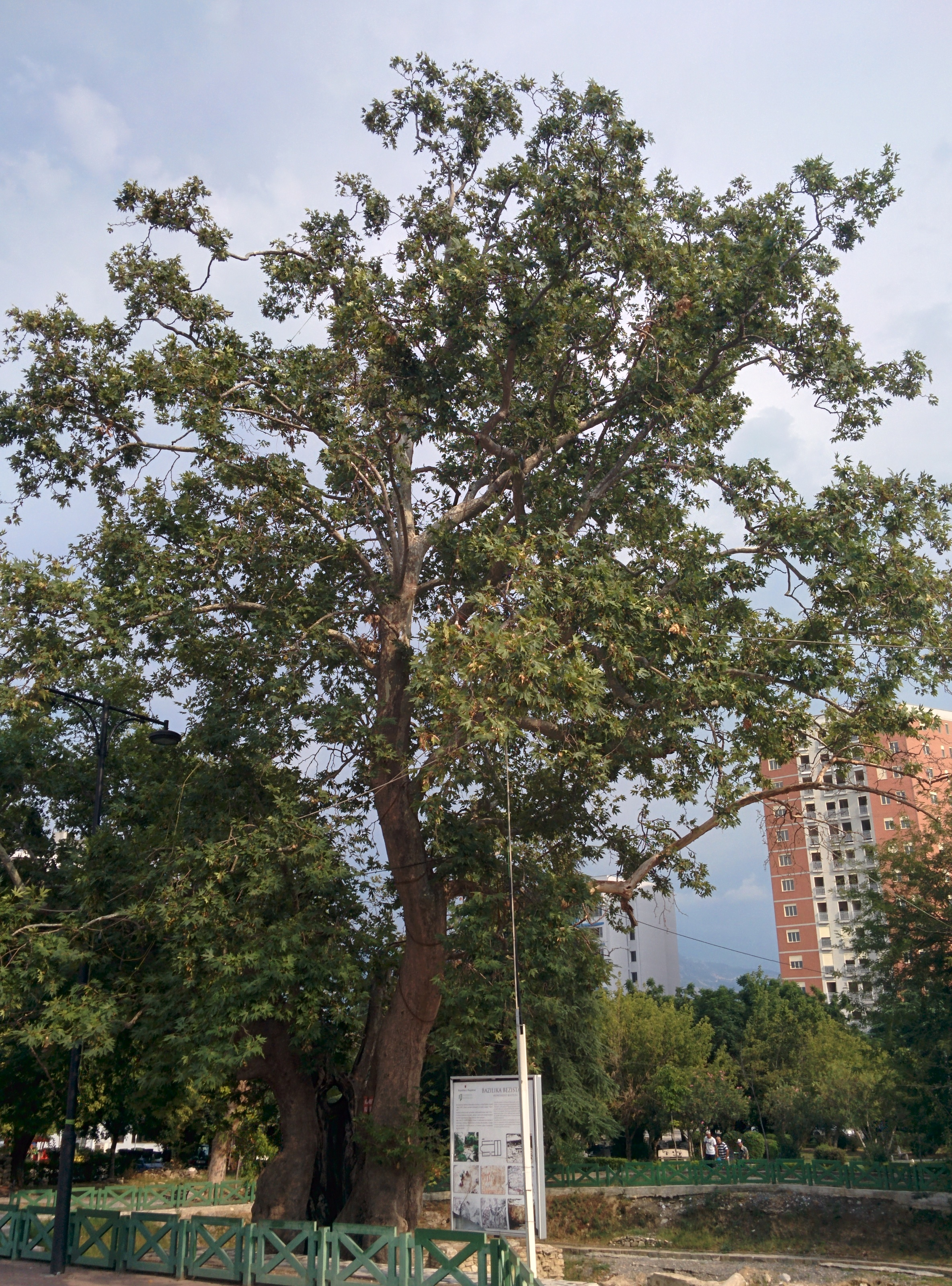 A monument of culture from the Ministry of Culture in Albania 'Bazilika e Bezistanit' is one of the most well known points of interest in Elbasan. It is located in the main square of the city.